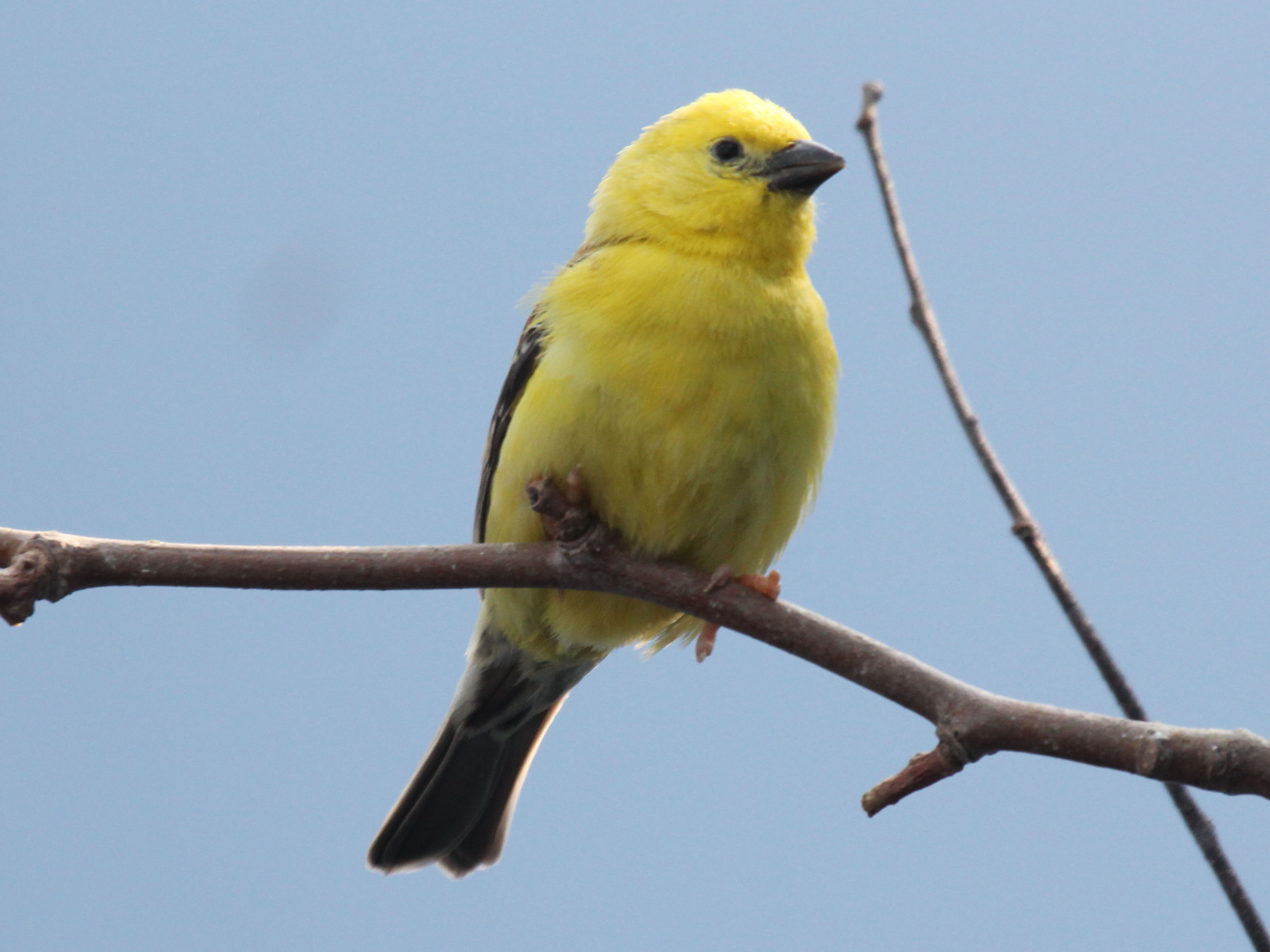 Sudan Golden Sparrow (Passer luteus) - National Aviary in Pittsburgh, Pennsylvania.